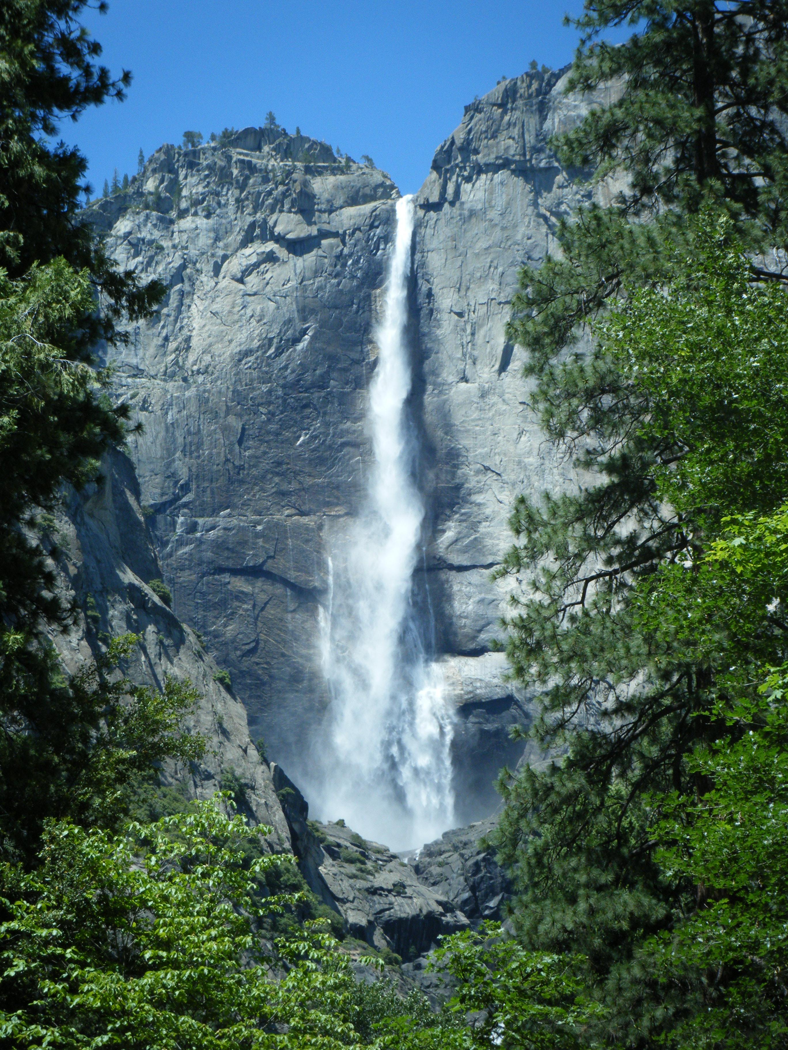 Photo of Yosemite Falls in Yosemite National Park.